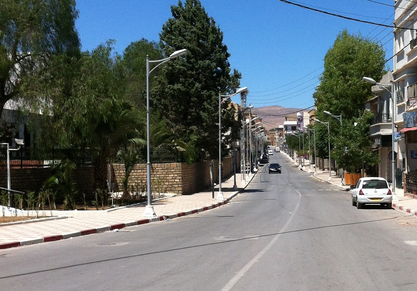 Bordj Bou Arréridj (Algeria), Mebarkia Smail Street